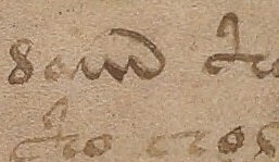 Detail of Voynich Manuscript, page 3, f1r, showing retouching of text